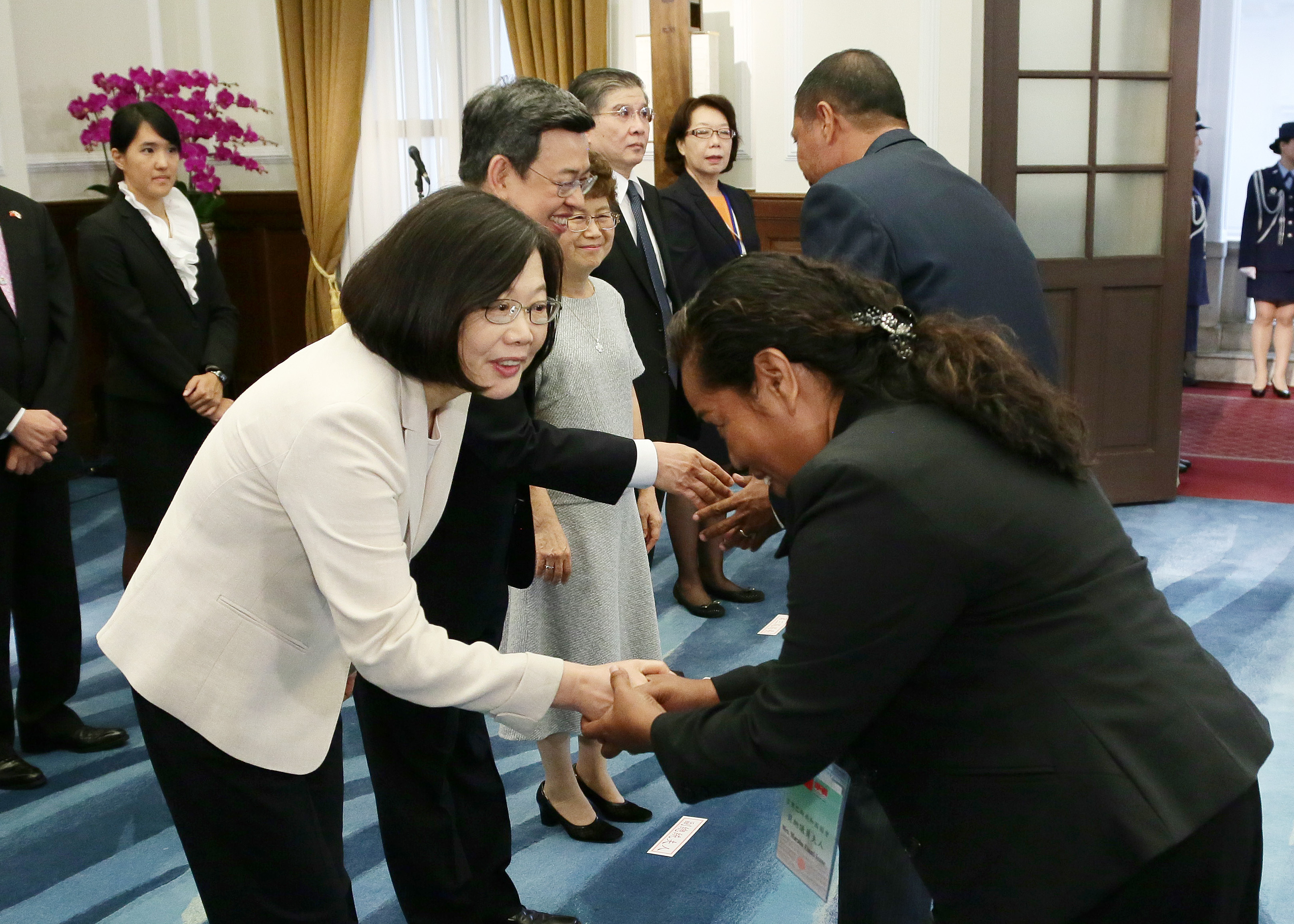 President Tsai Ing-wen and Vice President Chen Chien-jen receive congratulations from heads of state, special envoys, and political leaders from TAIWAN’s allies and friendly nations.